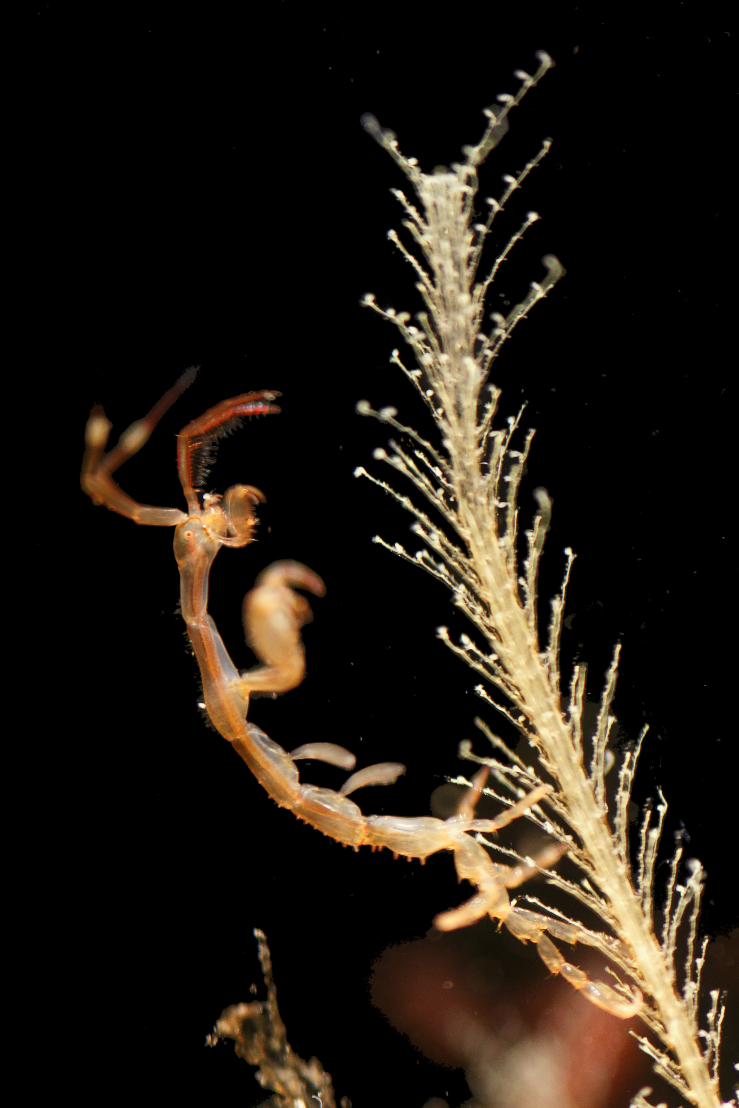 Japanese skeleton shrimp, Belgium